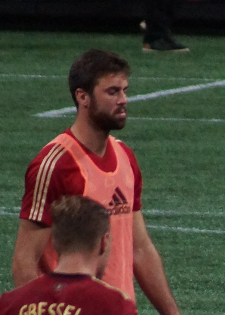 Alec Kann after the Atlanta United game on June 2, 2018